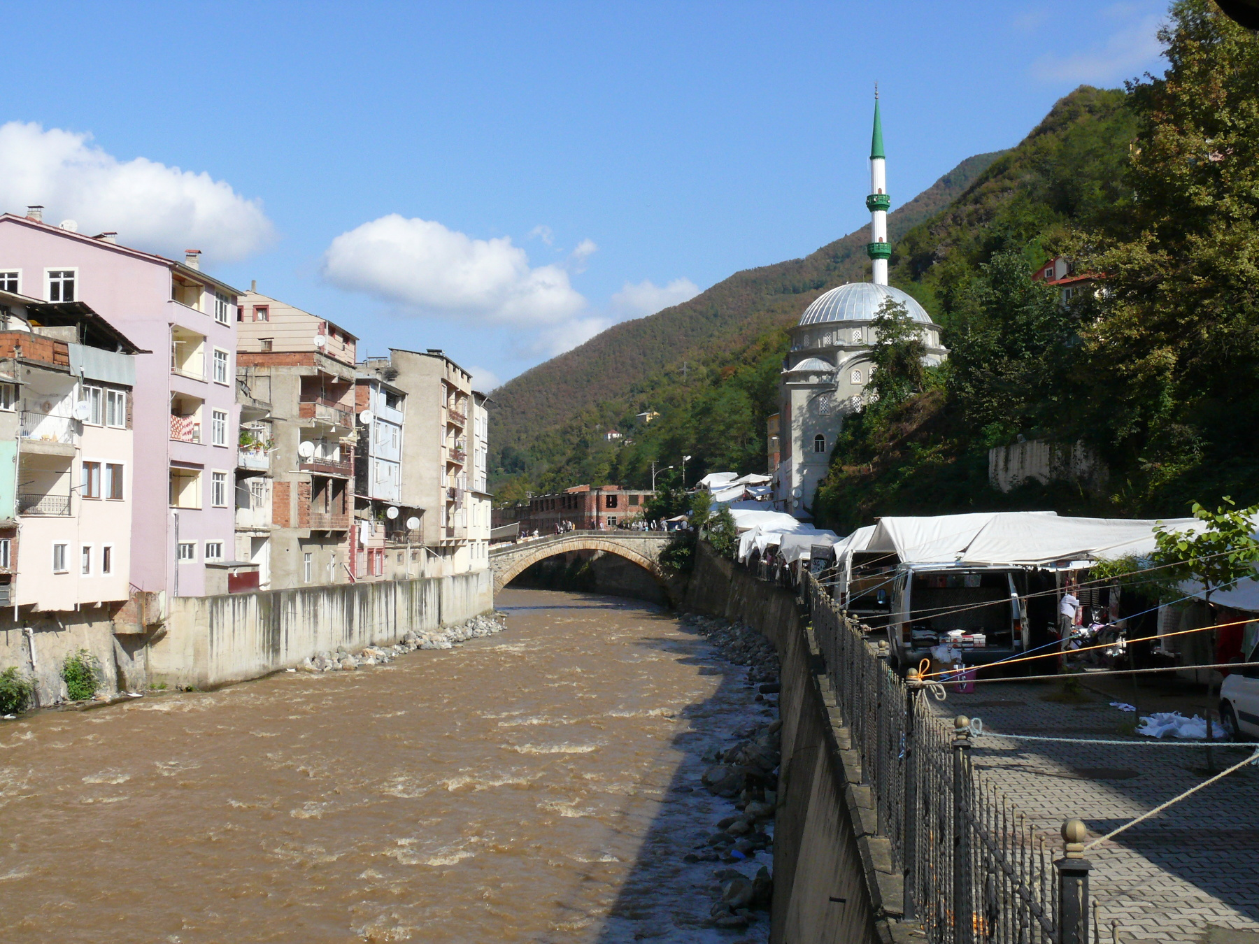 Dereli town and Aksu Deresi river, Giresun Province, Turkey.